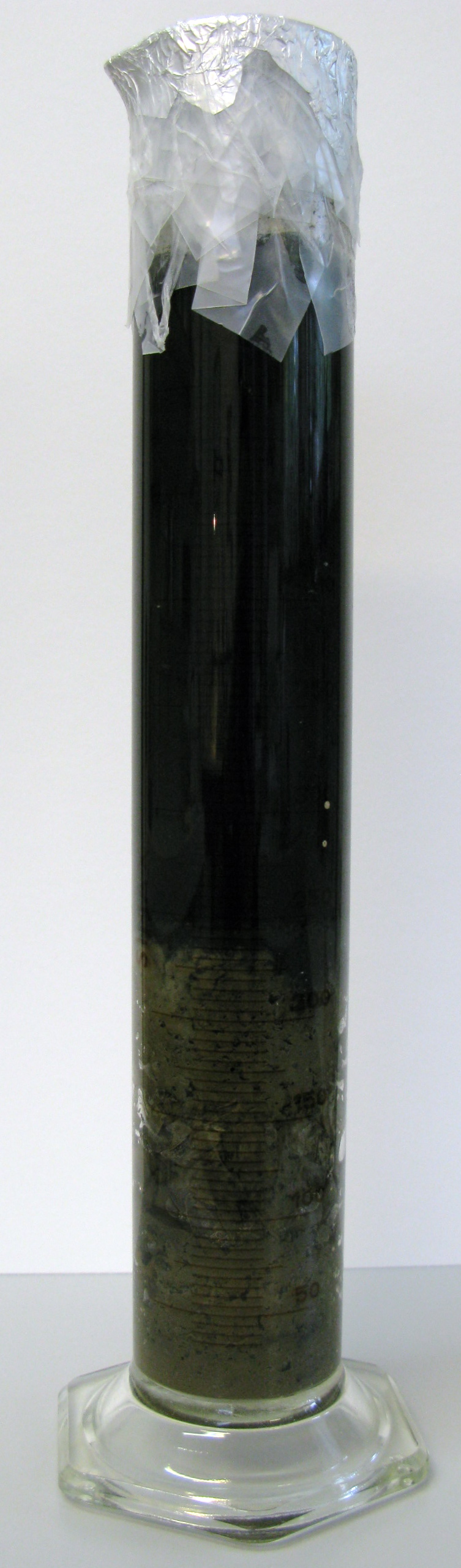 Winogradsky column, 18/03/2008